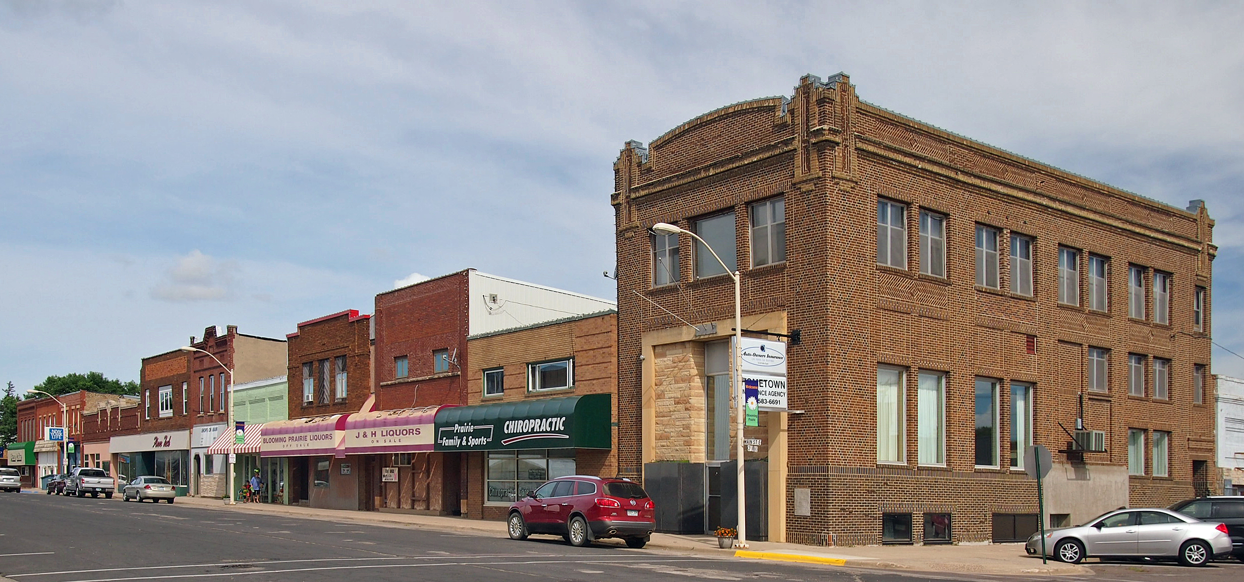 Downtown from the southeast corner of Main St and 3rd Ave, Blooming Prairie, Minnesota, United States. View looking northwest.